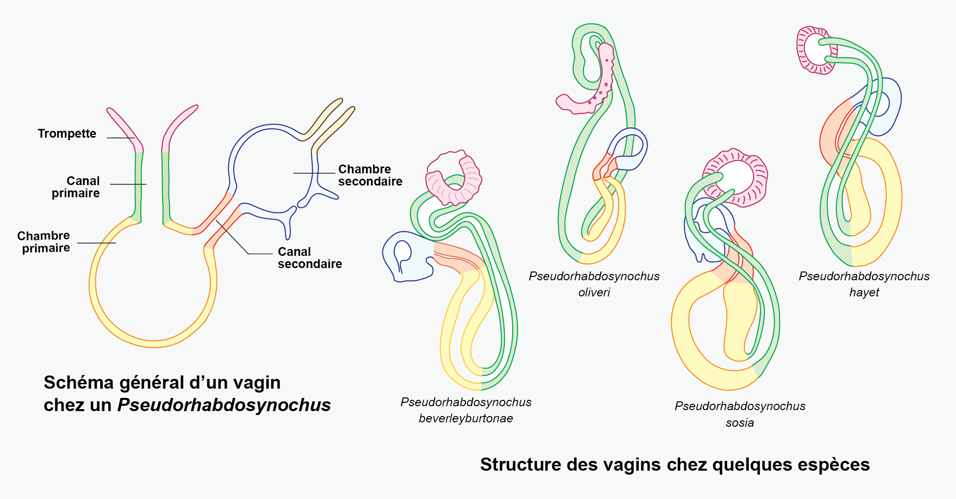 Diagrams of vaginae in various species of Pseudorhabdosynochus (Monogenea, Diplectanidae)